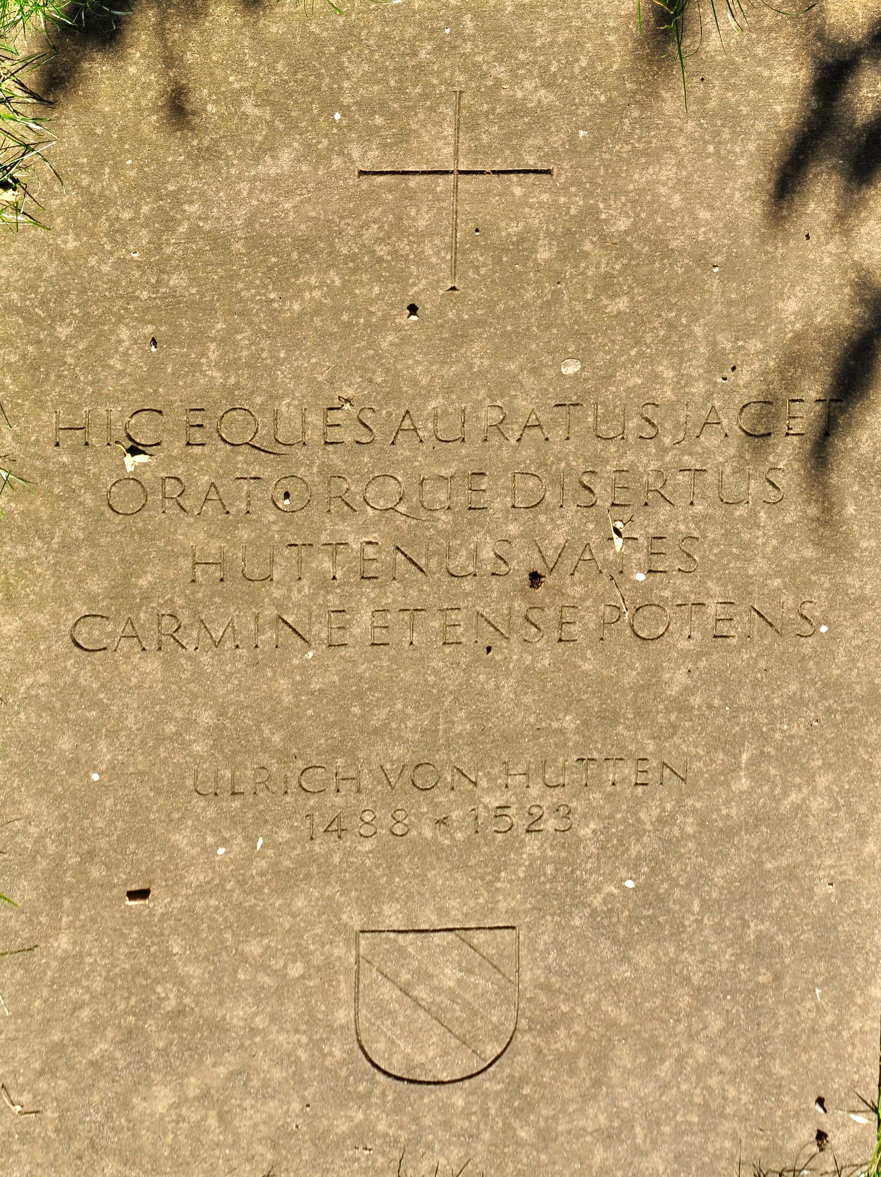 St. Peter und Paul was built in 1142, a former building is first mentioned in 970 A.D. St. Peter und Paul was for centuries a Parish church, situated on the Ufenau island (Zürichsee) in Switzerland. Ulrich von Hutten (*1488; †1523) refuged on the island and is buried besides St. Peter und Paul.